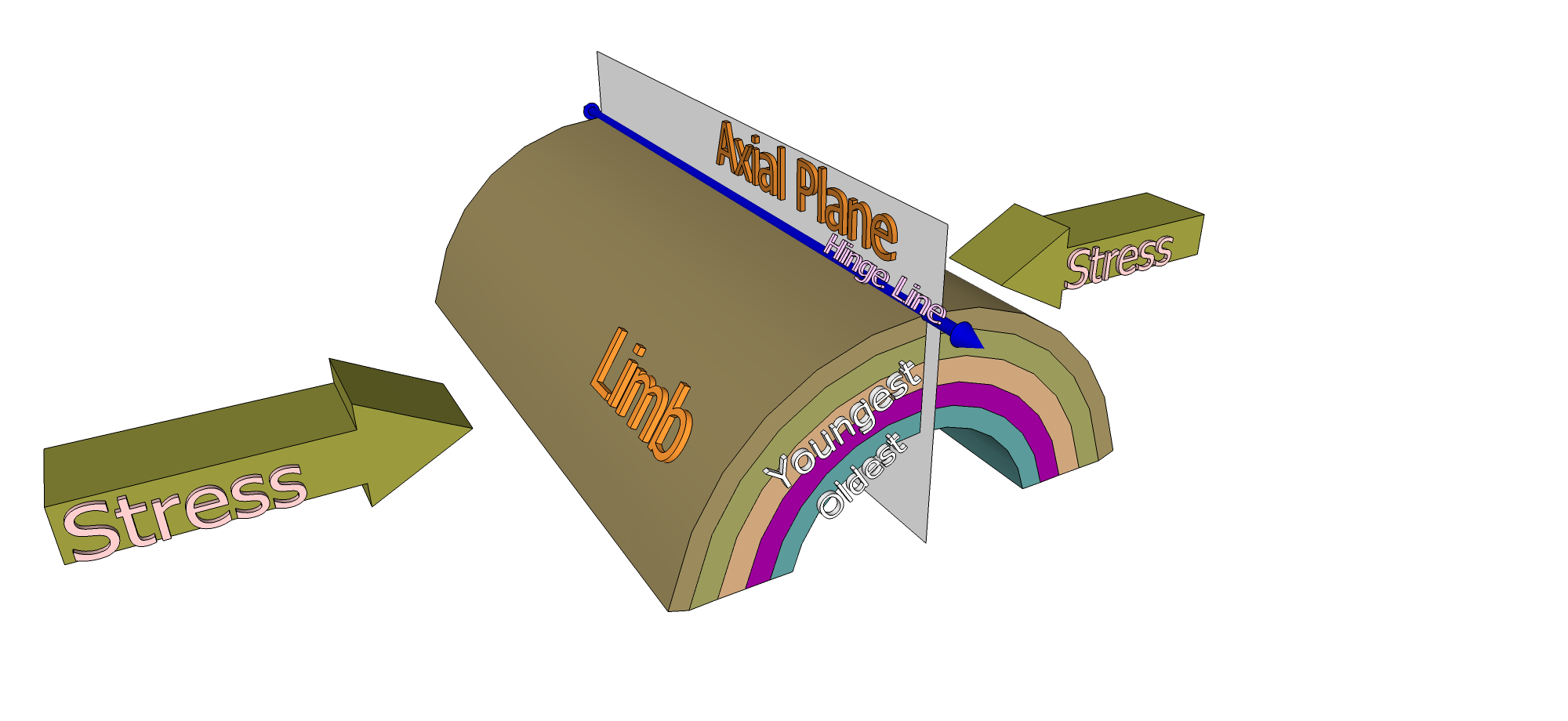 Model of Anticline made using Sketchup. Fold is "A"-shaped.